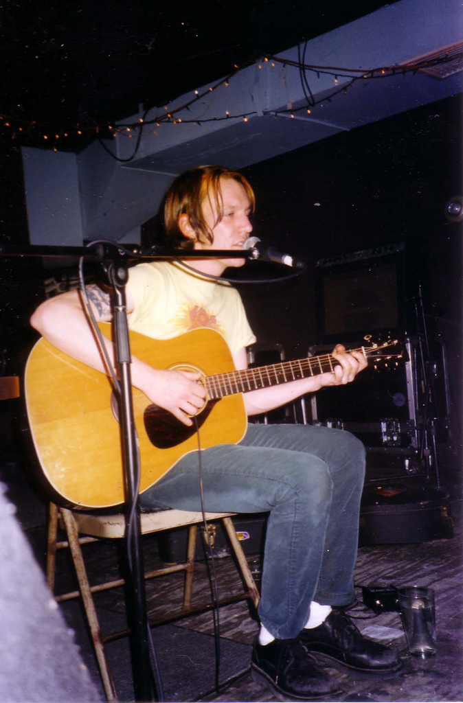 Elliott Smith performing live at "Brownies" in New York City, 1997